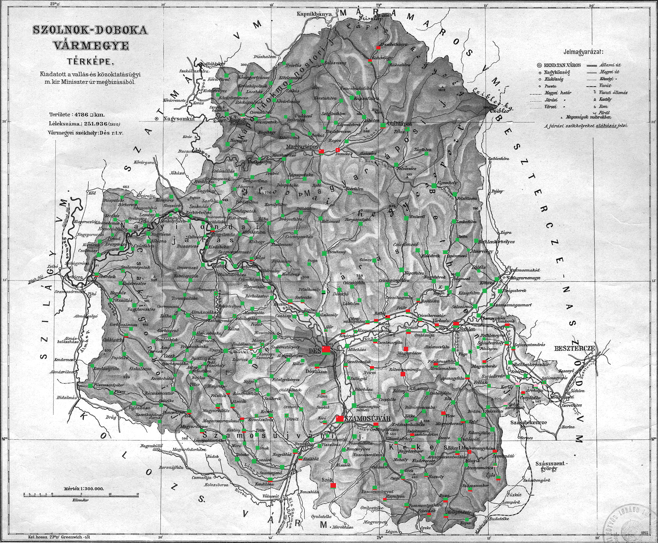 Ethnic map of the county (with data of the 1910 census). Key: dark green - Romanians; red - Hungarians; pink - Germans; black - Roma; violet - Ruthenians. Coloured dots in plain rectangles imply the presence of smaller minority populations (generally more than 100 people or 10%). Multicoloured rectangles imply cities and villages with multi-ethnic populations with the order of the stripes following the ethnic composition of the settlement.